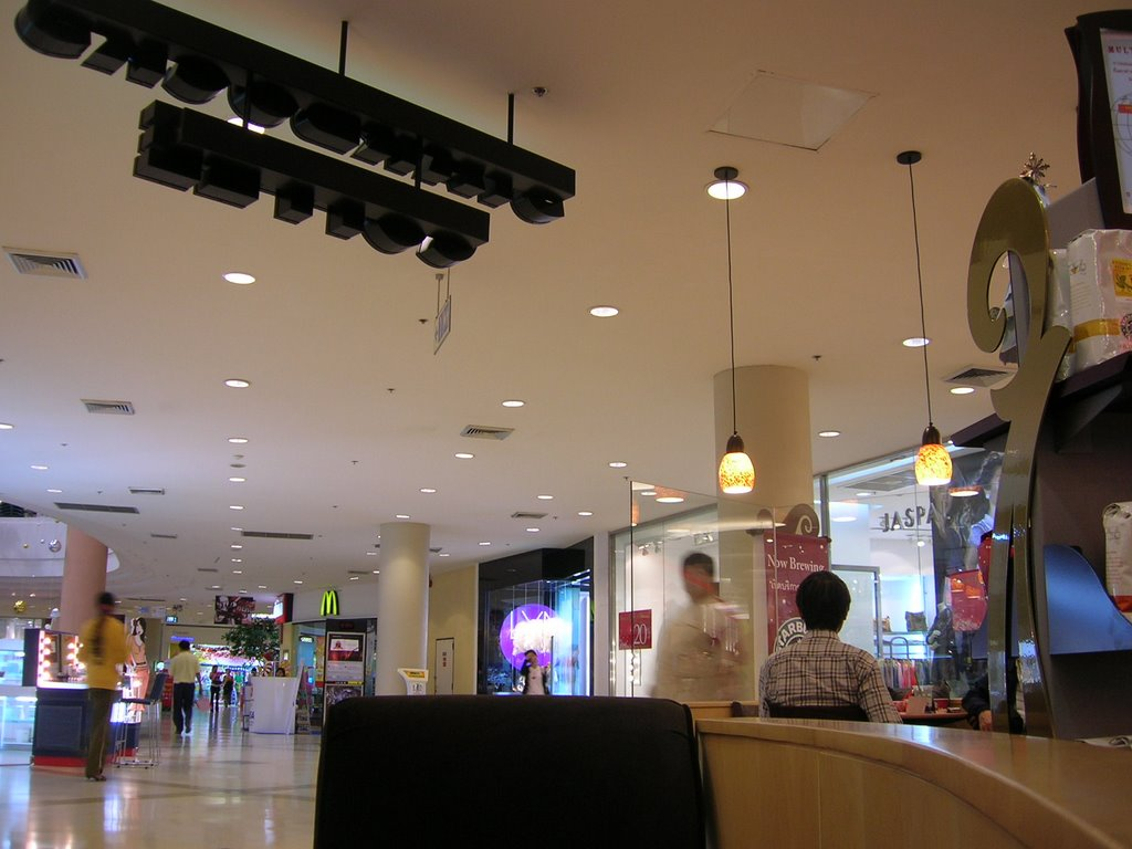 Jan 7, 2008 1024×768 pixels Filename: DSCN4318.JPG Camera: NIKON E4600 Place: Taken from Starbucks to capture places around in 1st floor of The Mall Korat